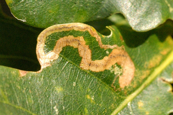 Stigmella ruficapitella from Commanster, Belgian High Ardennes .